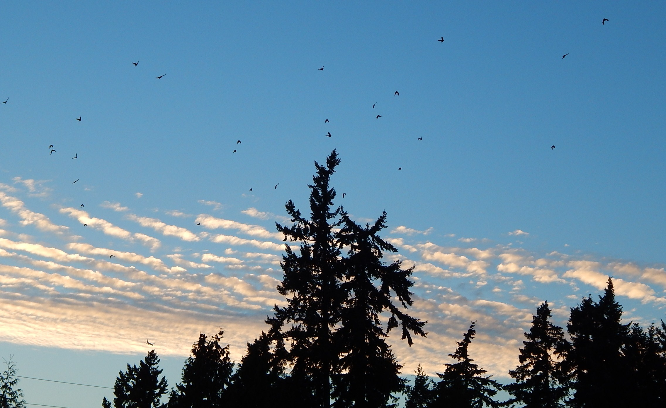 Crows commuting over Federal Way, WA. Sunset, so they are heading back to roost at the Auburn wetlands after spending the day feeding at Puget Sound. Like clockwork every day.